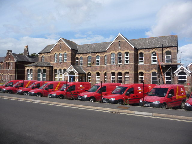 Dorchester: mail vans at the sorting office A fleet of red Royal Mail vans, in the front yard of the 1477281. Here, we can see the words Head Post Office around the arch of the doorway - this being the original part of the building.